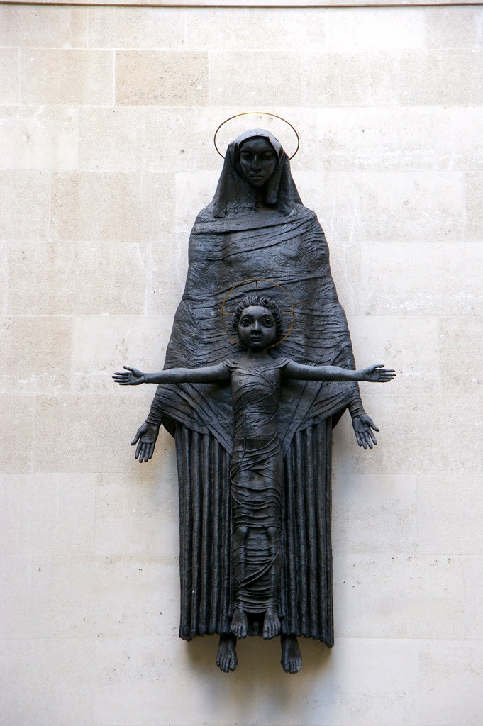 Jacob Epstein, Madonna and Child (1952). Deans Mews, overlooking Cavendish Square, London